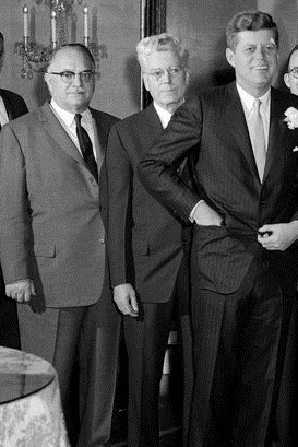 Frank T. Bow, Michael A. Feighan, congressmen from Ohio and John F. Kennedy in Blue Room at White House March 16, 1961.